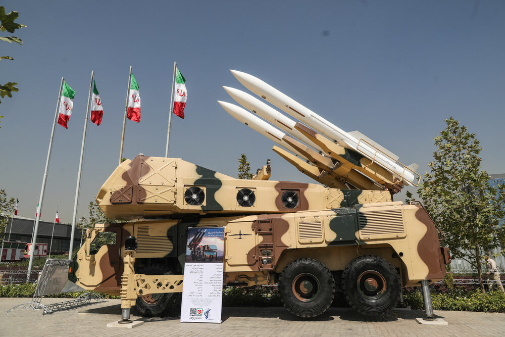 The specific 3rd Khordad TELAR that shot down an American RQ-4 drone, with kill marking on side. at IRGC 2019 drone showcase "Hunting Vultures."